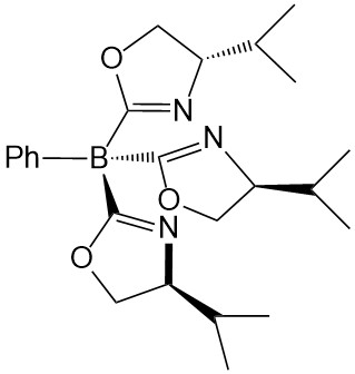 ToP ligand